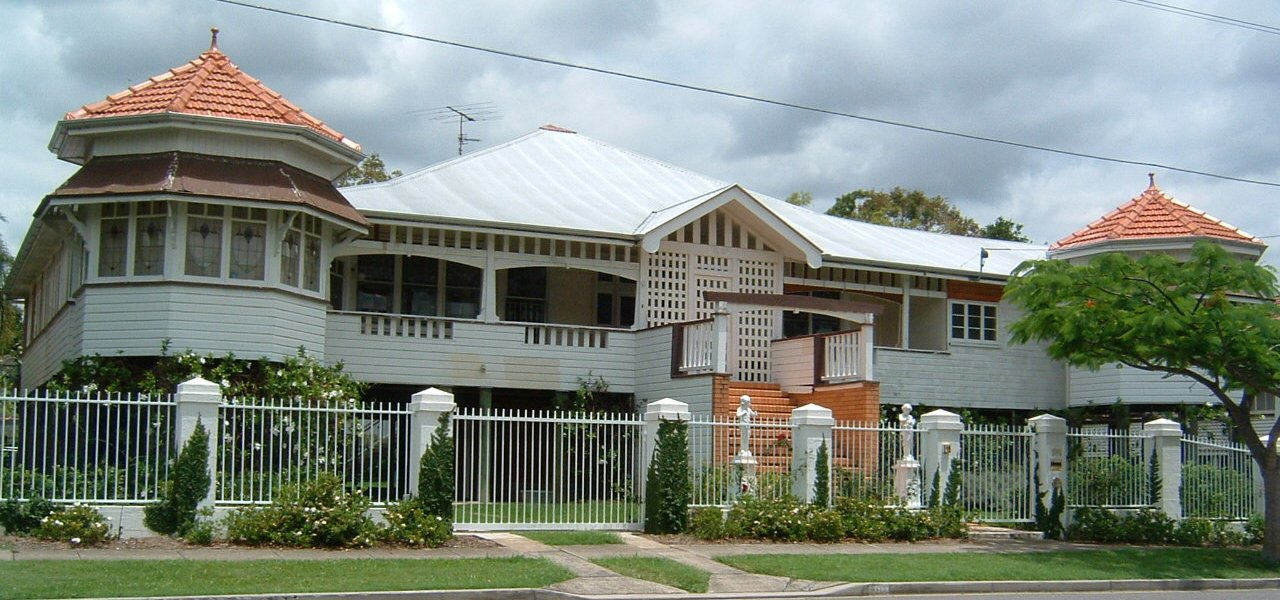 A Queenslander in New Farm. Photo taken by User:Adz on 8 October 2005.